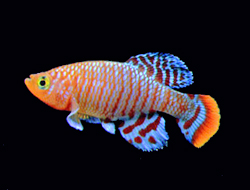 Nothobranchius rachovii, Ahl 1926, adult male. Contrasts enhanced and background digitally removed by the photographer, picture otherwise closely resembling the actual fish. See also: Nothobranchius (enwiki).